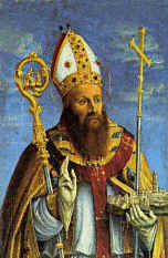 Saint Duje, patron of Split, Croatia; from the Franciscan church in Poljud